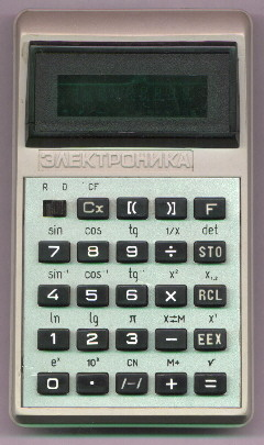 Soviet made calculator "Elektronika B3-32"